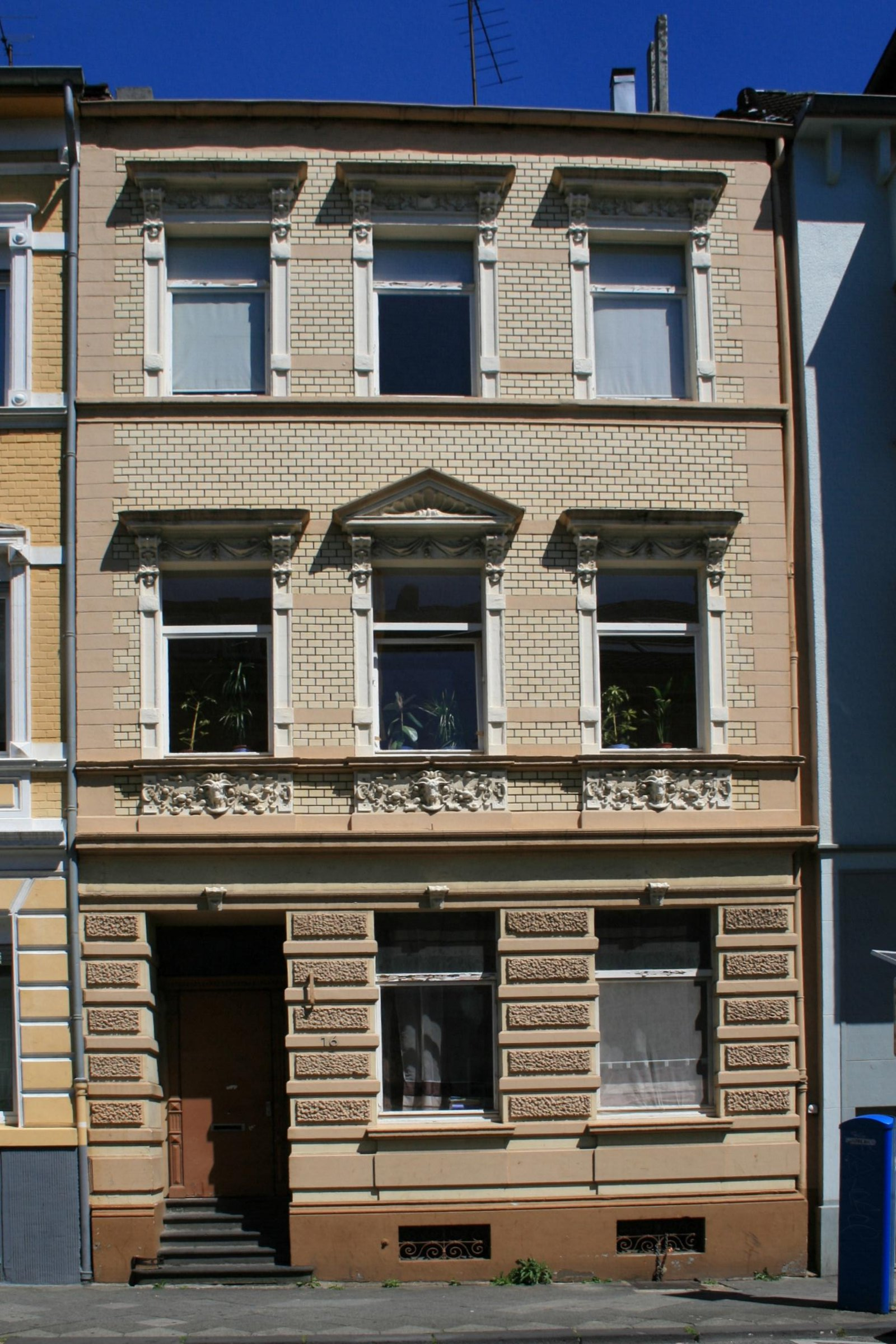 Cultural heritage monument No. Sch 027 in Mönchengladbach